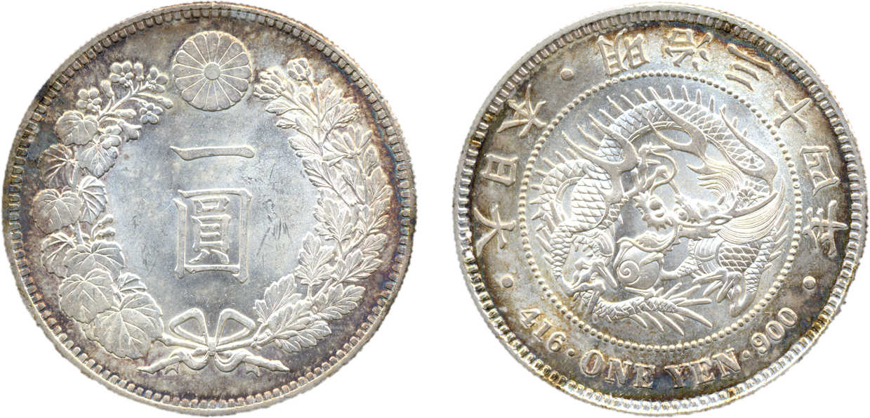 1yen-M34. 1900.